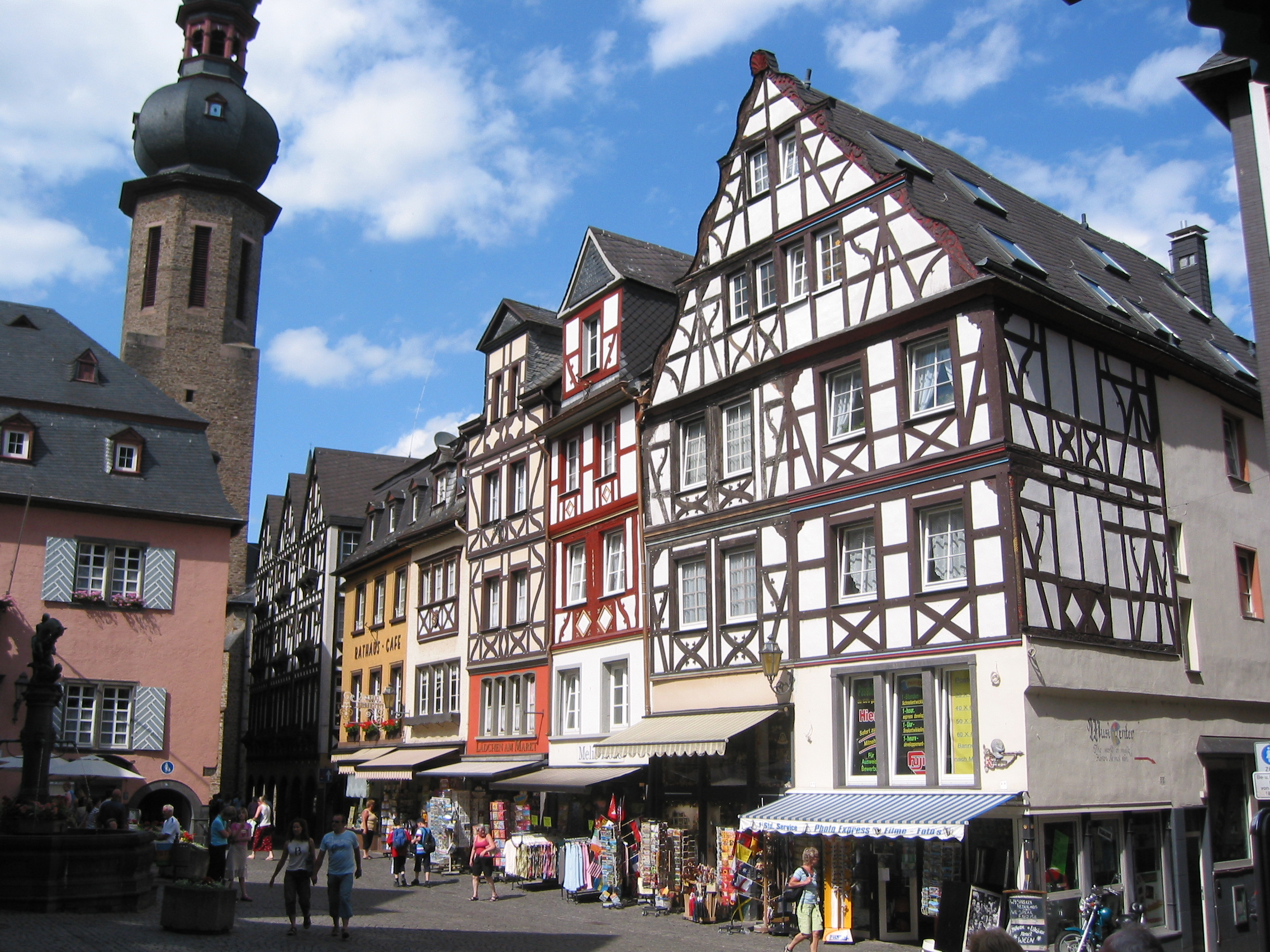 Cochem, Germany.